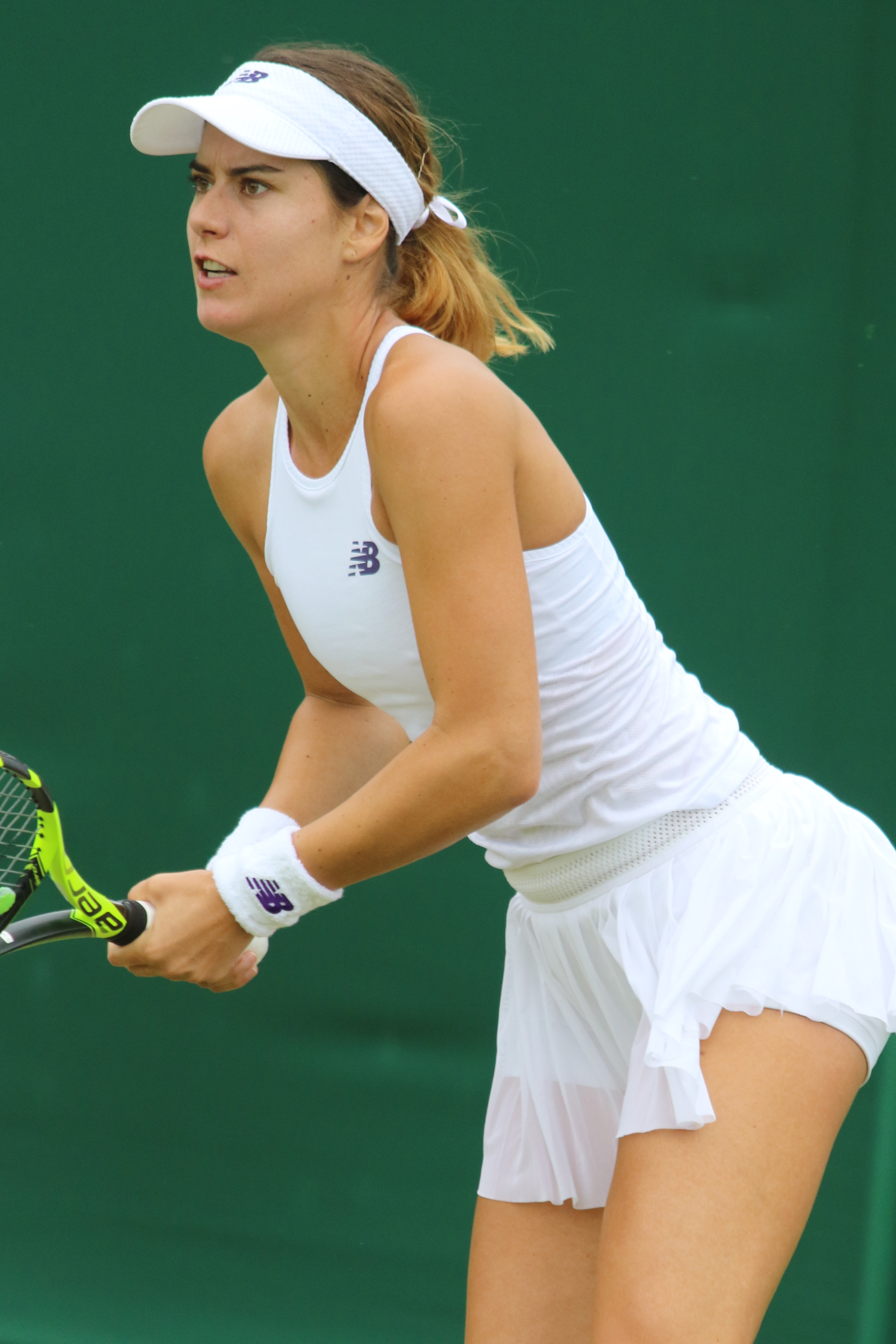 Cirstea WM17 (8)